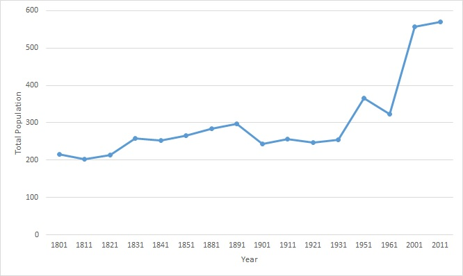 Total population of Lower Hardres Civil Parish, Canterbury as reported by the Census of population from 1801-2011